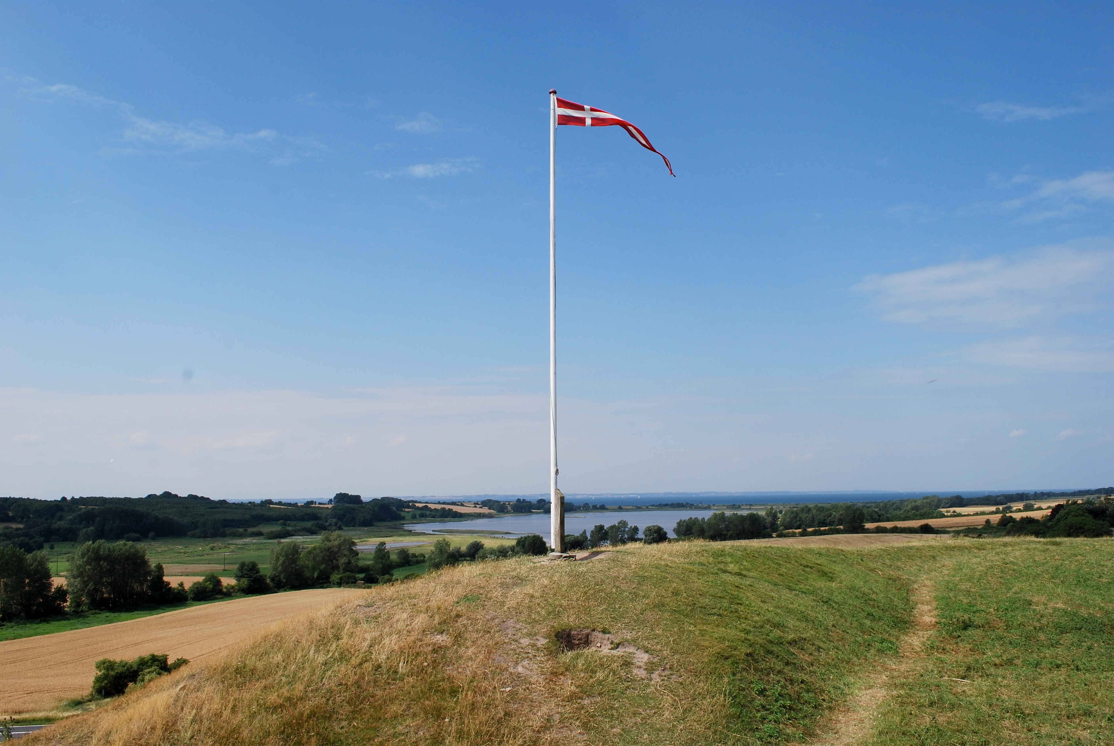 Søbyvolde, Ærø, Denmark